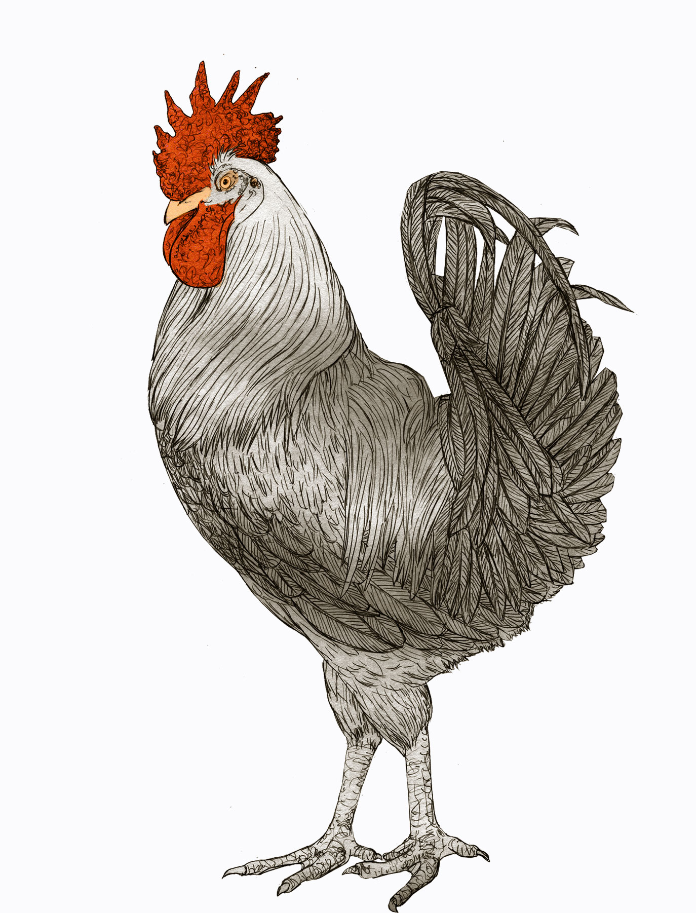 raza autoctona de gallo, de Valencia